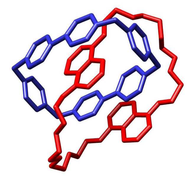 This is a picture generated from crystal structure data reported by Peter R. Ashton, Christopher L. Brown, Ewan J. T. Chrystal, Timothy T. Goodnow, Angel E. Kaifer, Keith P. Parry, Douglas Philp, Alexandra M. Z. Slawin, Neil Spencer, J. Fraser Stoddart and David J. Williams Chemical Communications, 1991, 634 - 639. It shows a catenane with a cyclobis(paraquat-p-phenylene) macrocyle. It was made by User:M_stone and is free to be used by all.